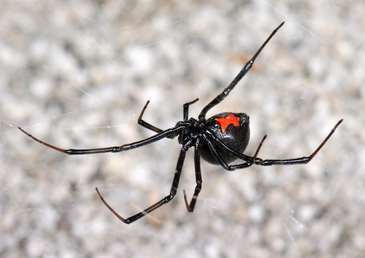 Latrodectus hesperus in web at night, desert wash habitat